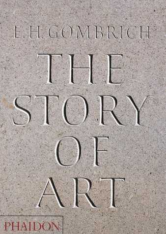 Cover of The Story of Art by Ernst Gombrich.